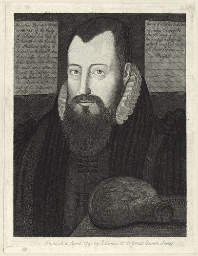 Portrait of Nicholas Byfield (1579-1622), preacher.